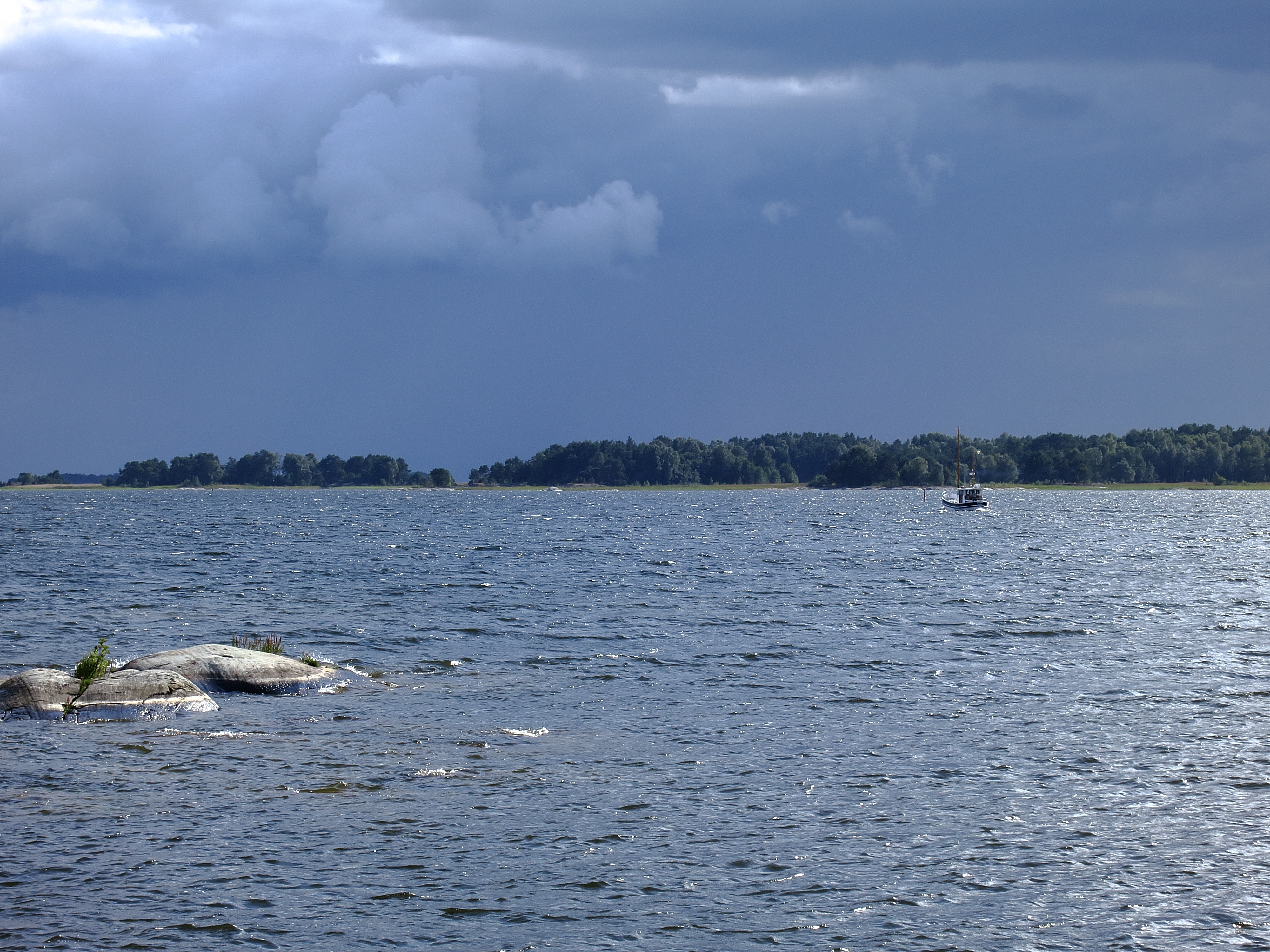 View on Lake Vänern from Ekenäs, the most southern point of the peninsula Värmlandsnäs (southeast vom Säffle)